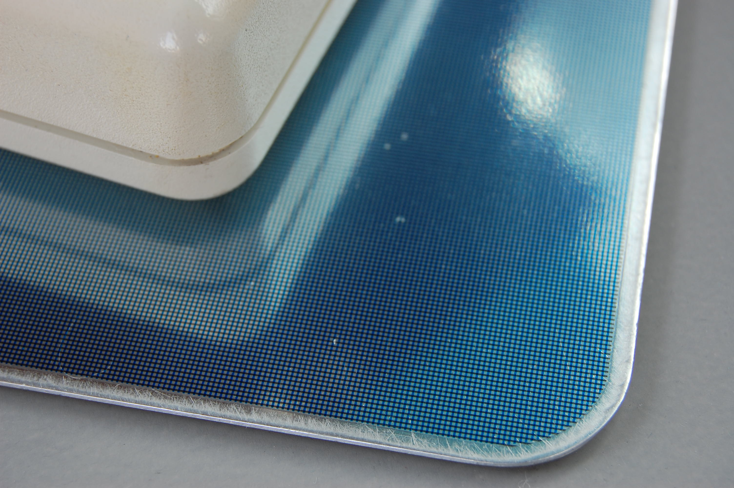 A detail view of the Mouse Systems mousepad. A dark grid and a reflective layer were used in this early optical pointing device